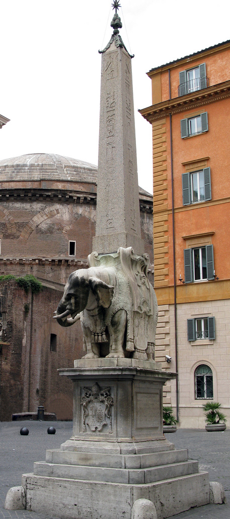 This curious monument in Rome, the so-called Pulcino della Minerva, is a statue designed by the Baroque sculptor Gian Lorenzo Bernini (and carried out by his pupil Ercole Ferrata in 1667) of an elephant as the supporting base for an Egyptian obelisk found within Emperor Dominican's garden. This structure is located in front of the Santa Maria sopra Minerva church of Rome. The obelisk itself is the shortest of eleven Egyptian obelisks found in Rome and is said to be one of a pair of two obelisks transported from Sais, the capital city of the 26th Saite dynasty of Egypt. The two obelisks were brought to Rome by Diocletian, during his reign as emperor from 284 to 305 AD, and placed at the Temple of Isis which stood nearby. This obelisk was first constructed under the 589-570 BC reign of pharaoh Apries. (the Bible's Hophra)